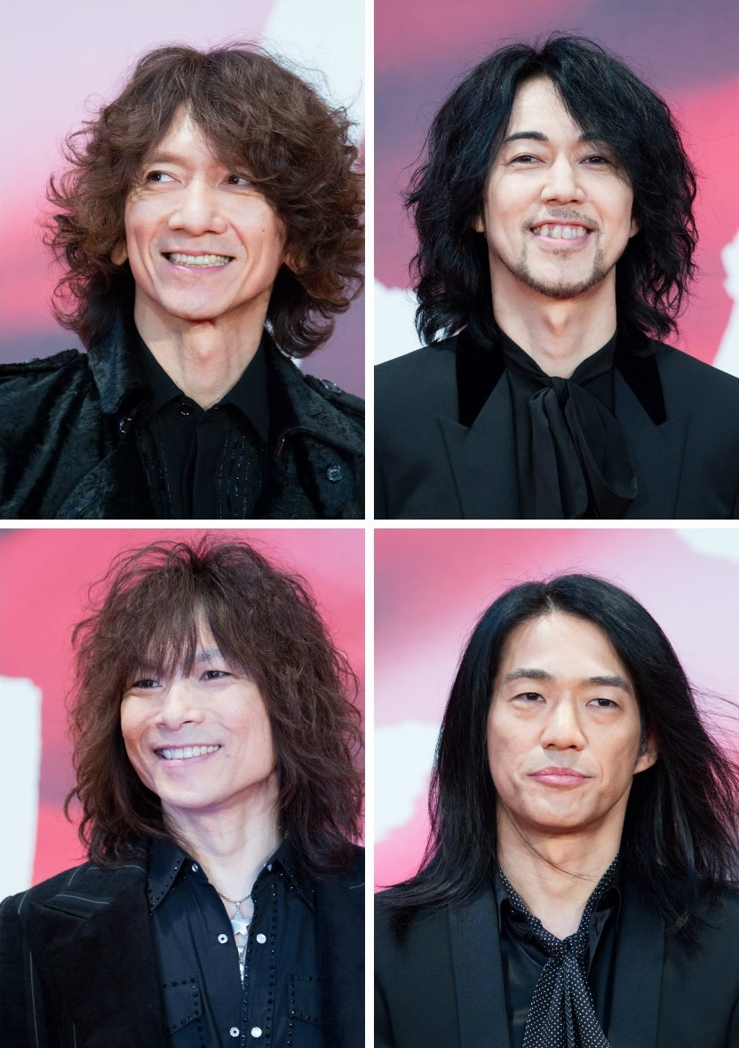 Clockwise, from top left: Kazuya Yoshii, Hideaki Kikuchi, Eiji Kikuchi, and Yoichi Hirose of The Yellow Monkey. A crop/montage derived from images with Creative Commons licenses on Wikimedia Commons.